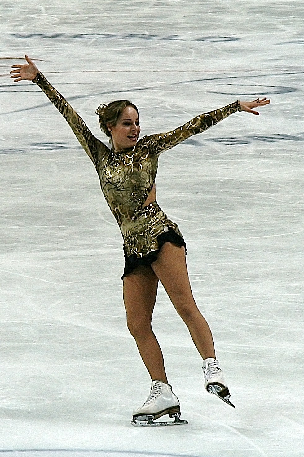 Elena Glebova at the 2011 World Figure Skating Championships